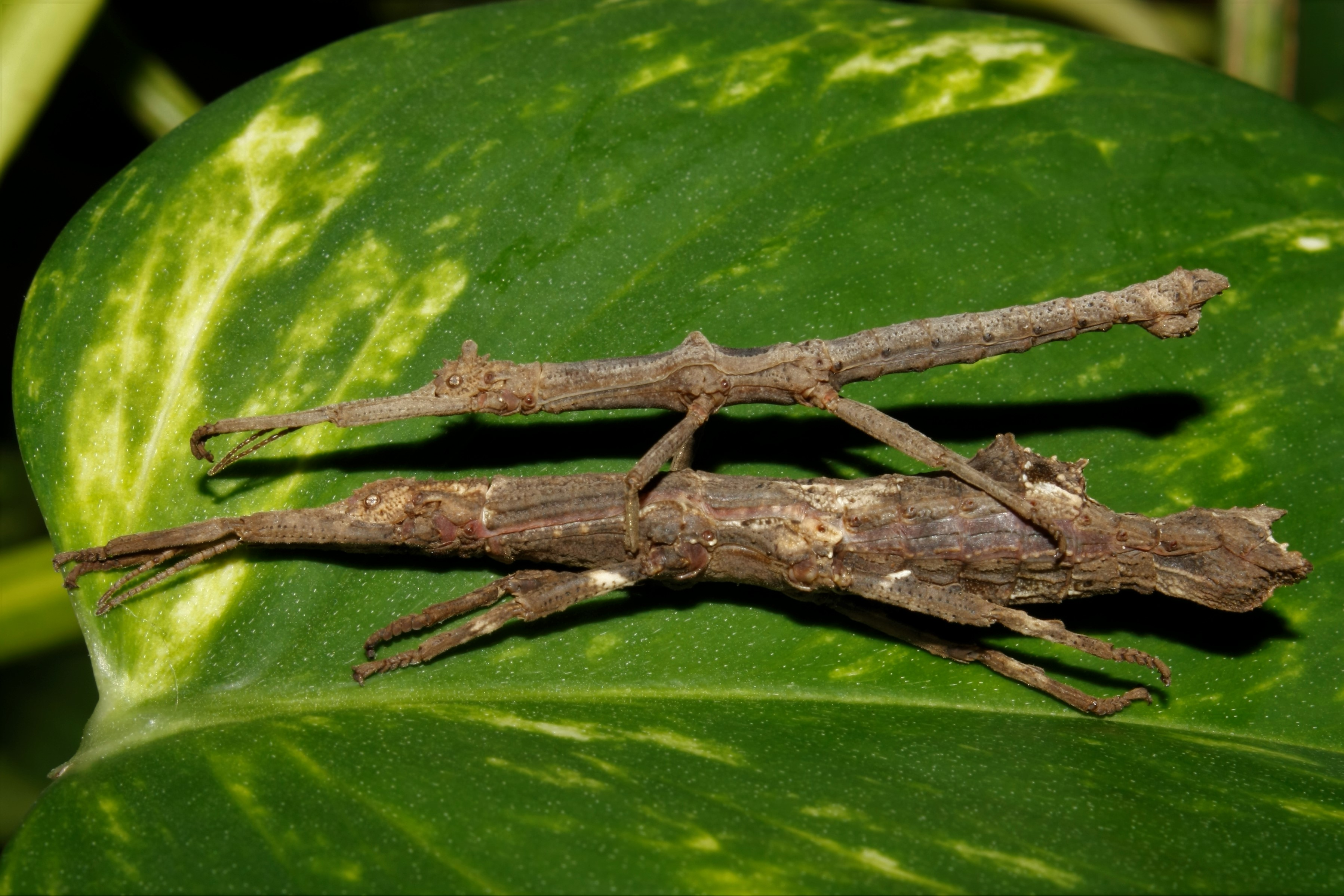 Orestes draegeri, pair from Dong Nai, Vietnam